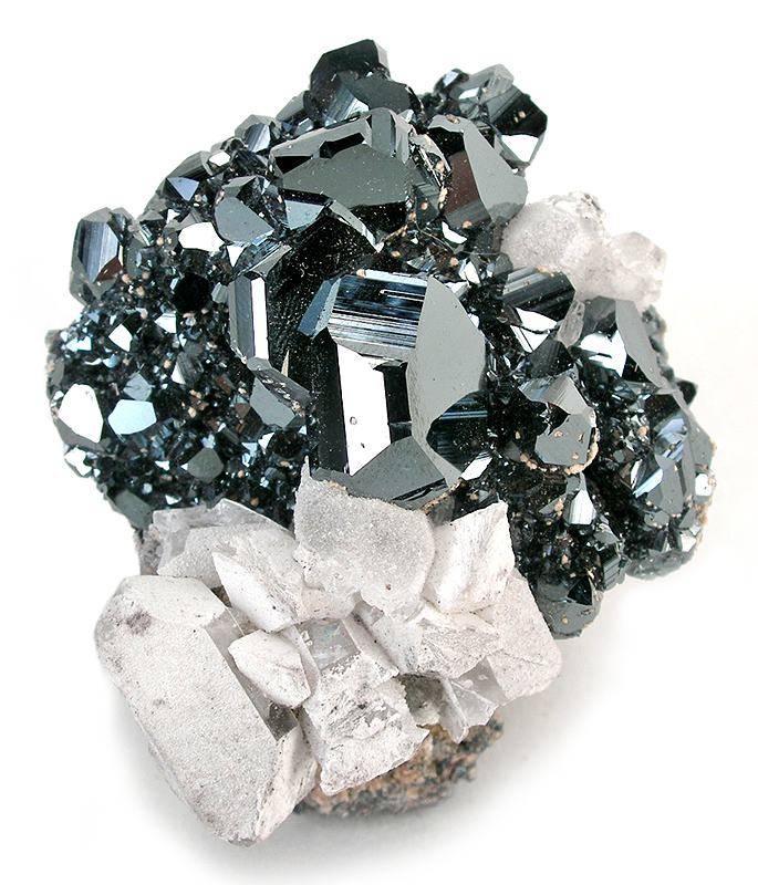 Baryte, Hematite Locality: Wessels Mine (Wessel's Mine), Hotazel, Kalahari manganese fields, Northern Cape Province, South Africa (Locality at ) Size: miniature, 5.8 x 4.7 x 3.2 cm Hematite with Barite A brilliantly metallic cluster of sharp hematite crystals to 1.7 cm, accented by tabular, phantomed, BARITE to 2 cm. You rarely see this association, and in such an aesthetic combination as well! This is a very beautiful miniature with a lot more visual pizzazz than even the pictures indicate.